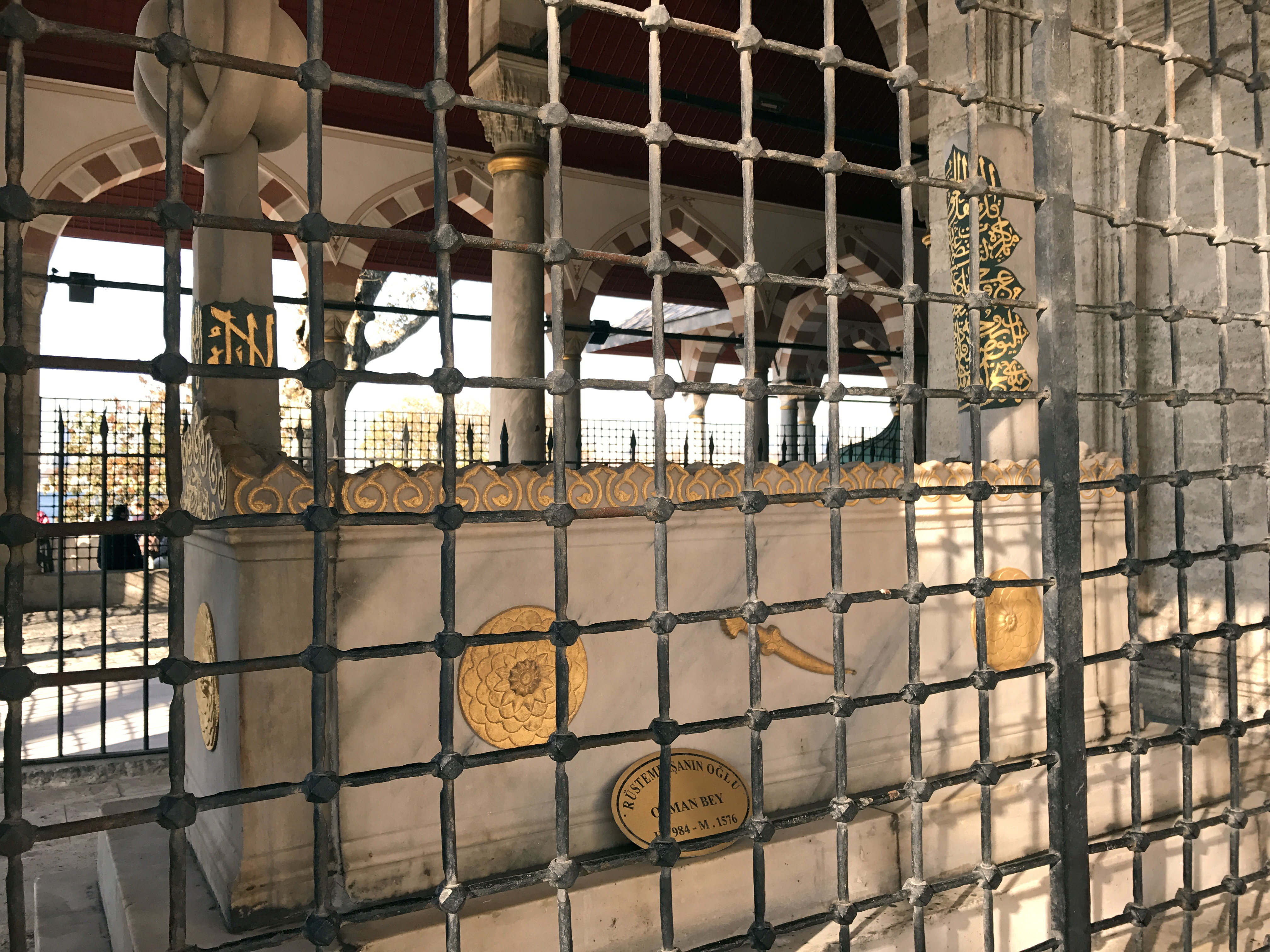 Mihrimah Sultan Mosque (built 1548), is an Ottoman mosque located in the historic center of the Üsküdar municipality in Istanbul, Turkey. It is the first of two mosques built by Mihrimah Sultan, daughter of Sultan Suleiman the Magnificent and wife of Grand Vizier Rüstem Pasha. It was designed by Mimar Sinan and built between 1546 and 1548.